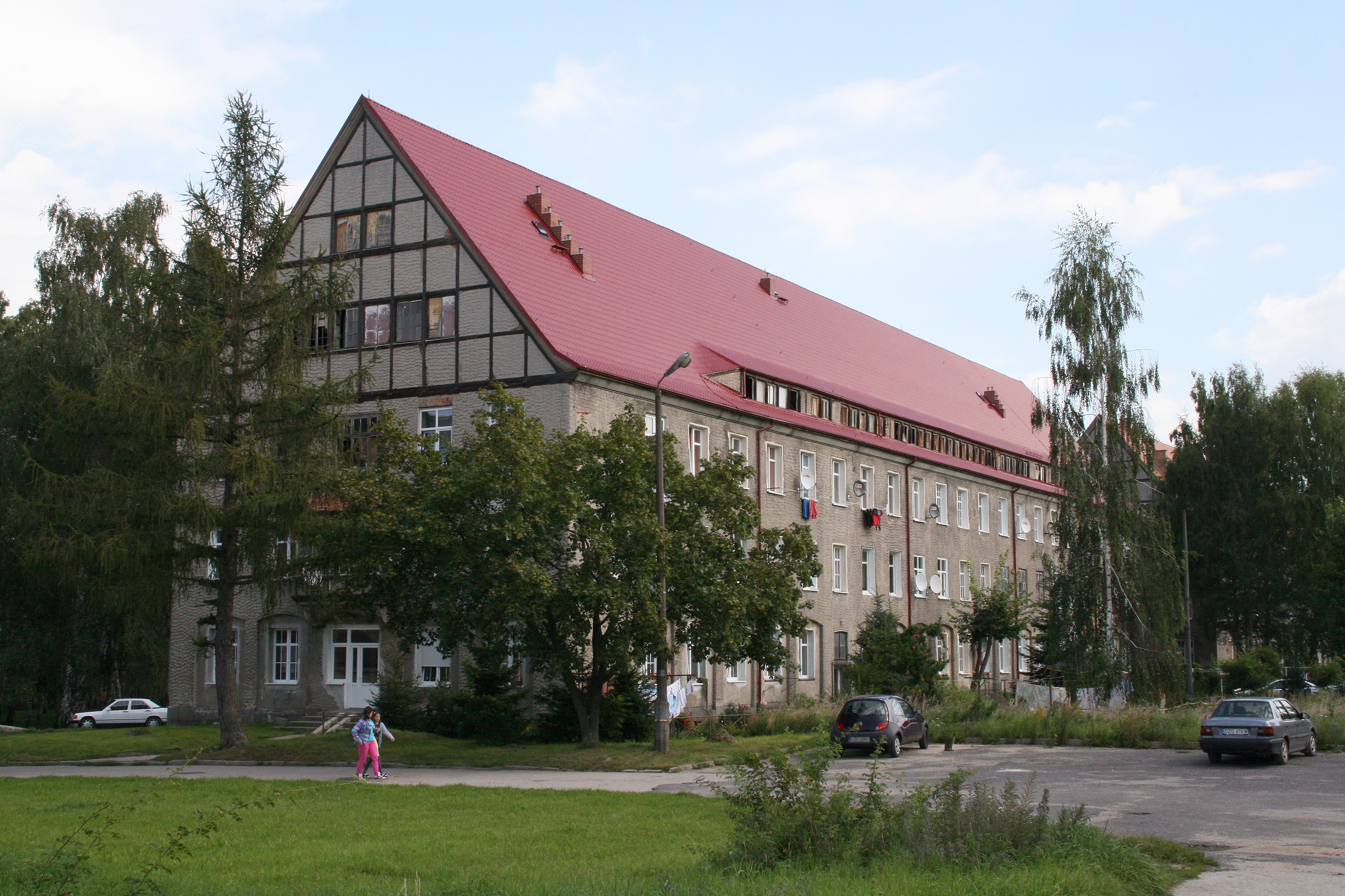 Porajów - former „Zittwerke“